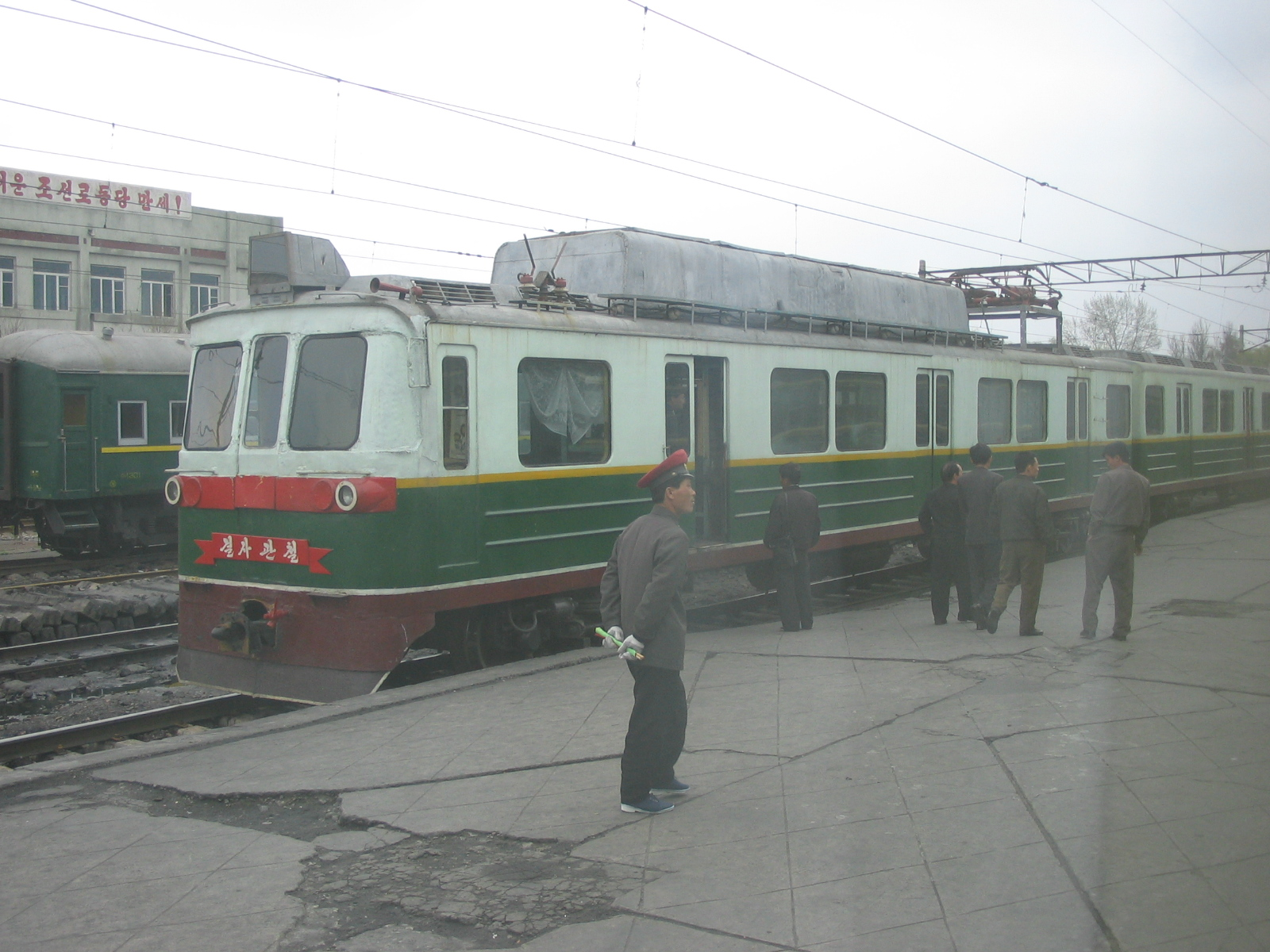 Former metro of Pyongyang now in use as an EMU in North Korea.Picture taken from out a train Beijing-Pyongyang